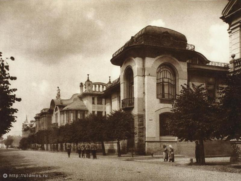 Povarskaya street Moscow 1900-191